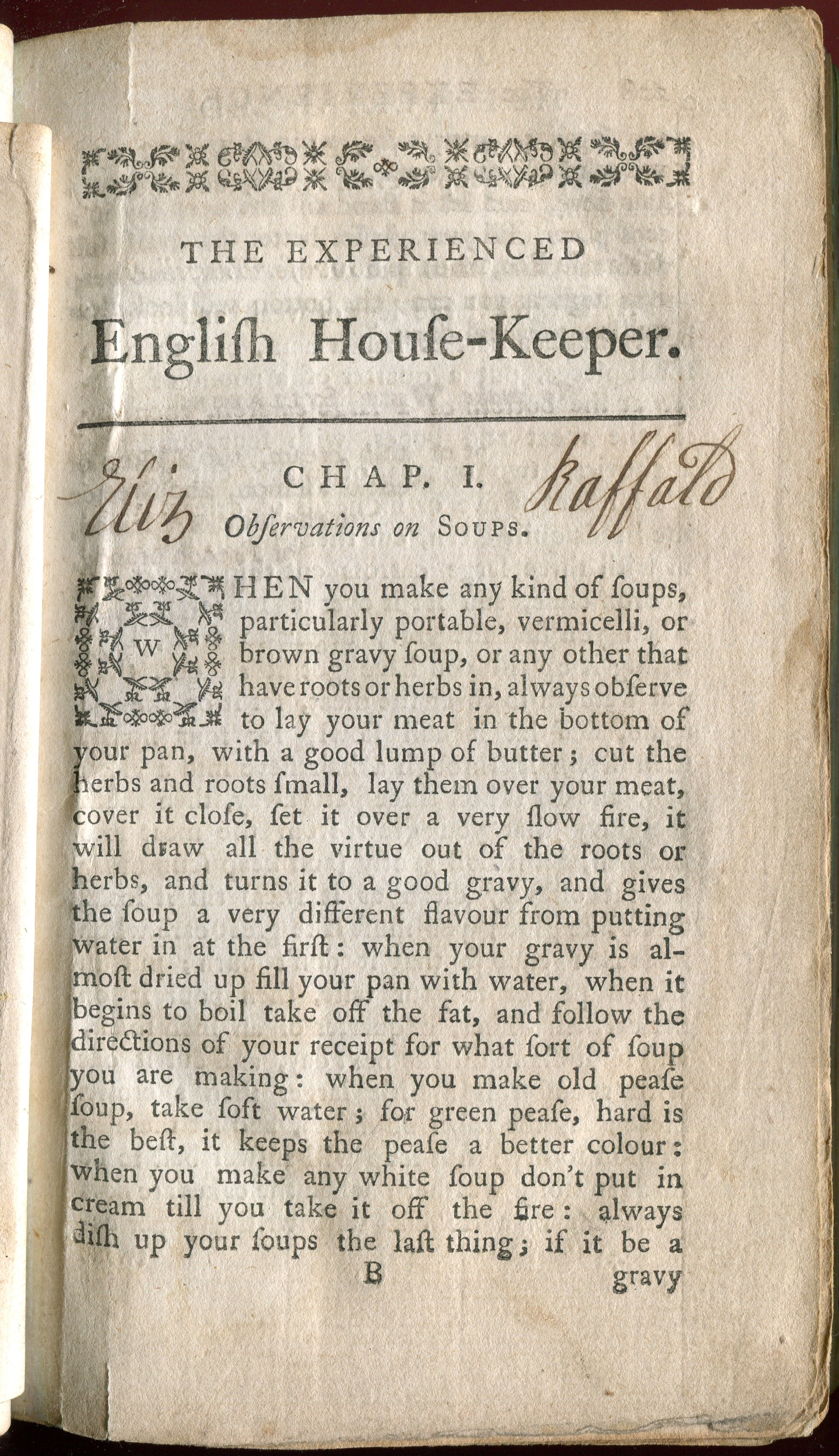 Signature page of Elizabeth Raffald's 'The Experienced English Housekeeper'. Only signed copies were to be taken as genuine, according to the title page.